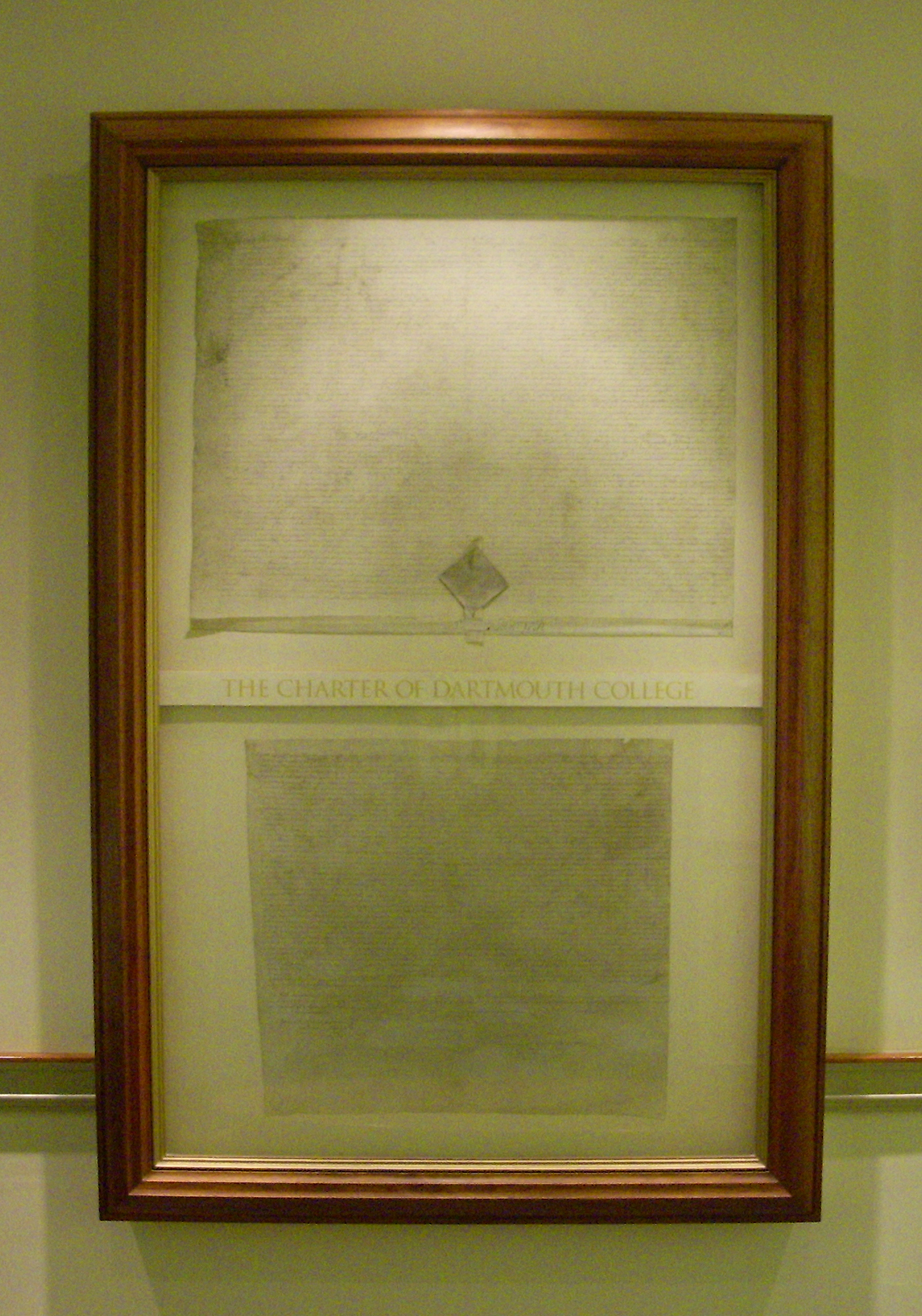 Photograph of the charter of Dartmouth College in Hanover, New Hampshire, signed 1769.